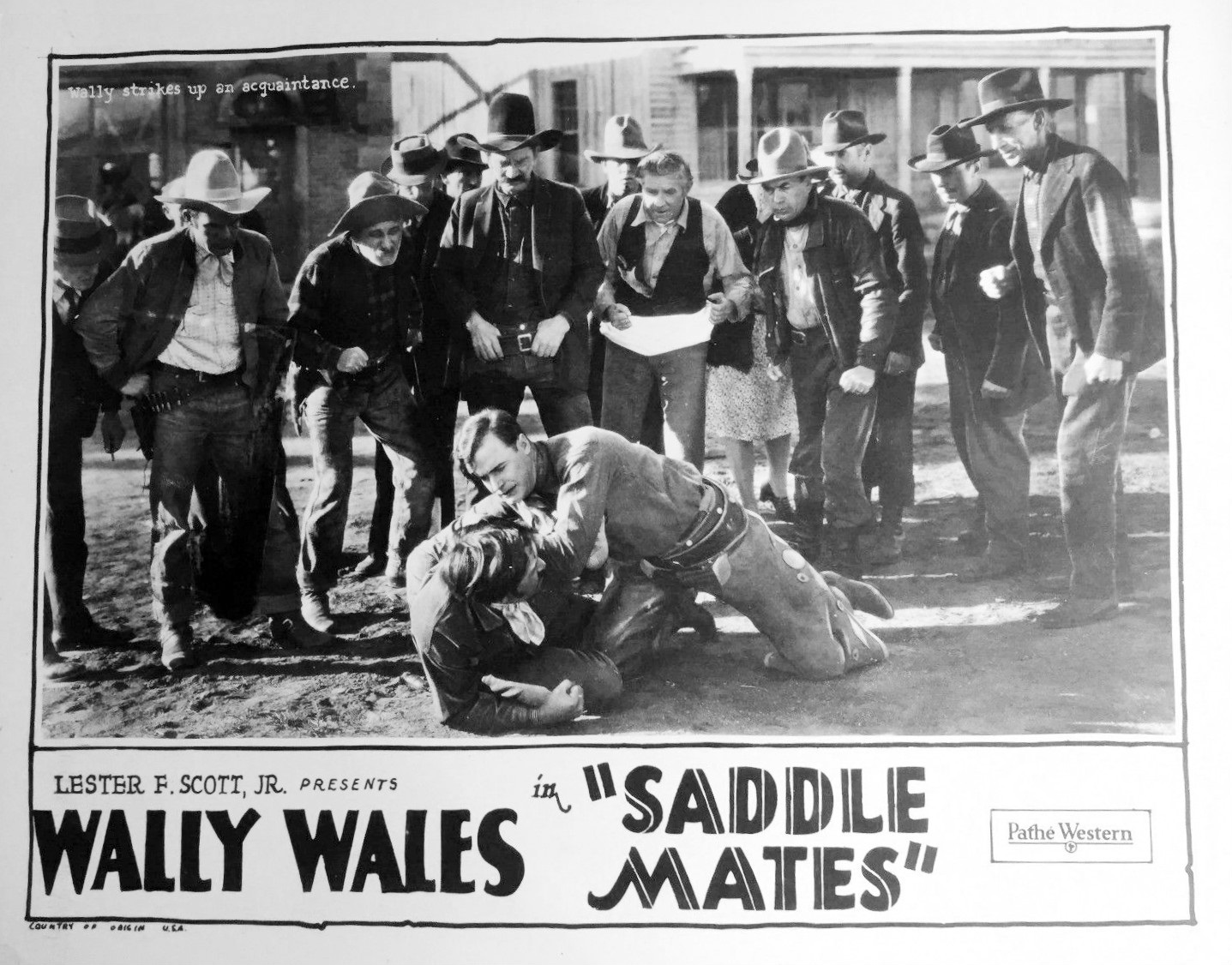 Lobby card for the American western film Saddle Mates (1928).